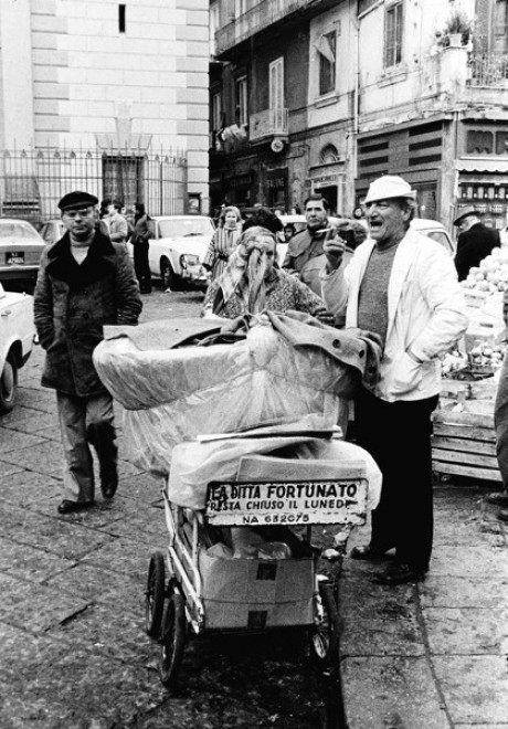 The street vendor Fortunato Bisaccia (with the white cap) in the Pignasecca market in Naples